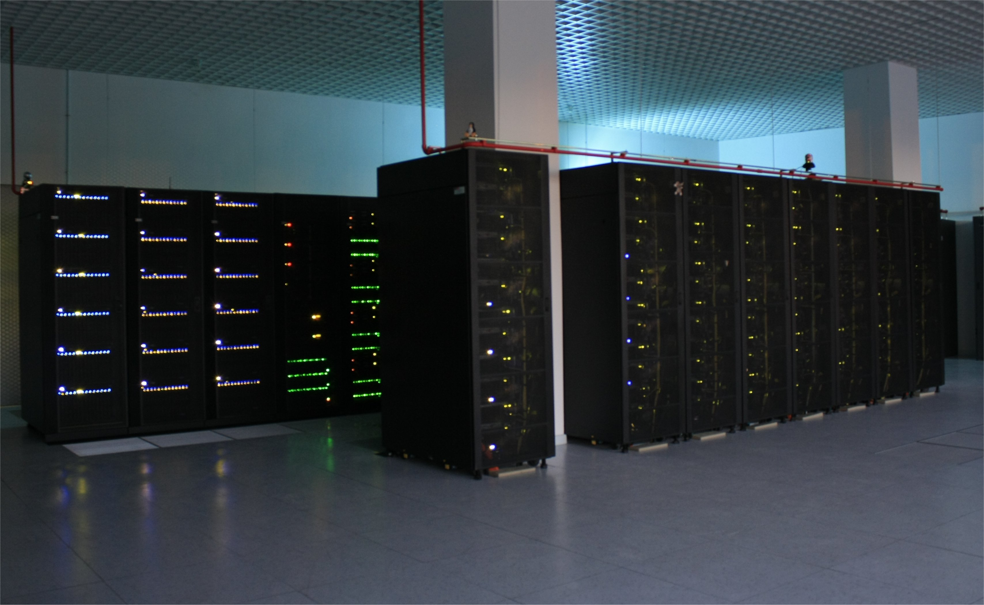 Magerit Supercomputer (at night) housed by Supercomputing and Visualization Center of Madrid (CeSViMa), Technical University of Madrid (UPM)